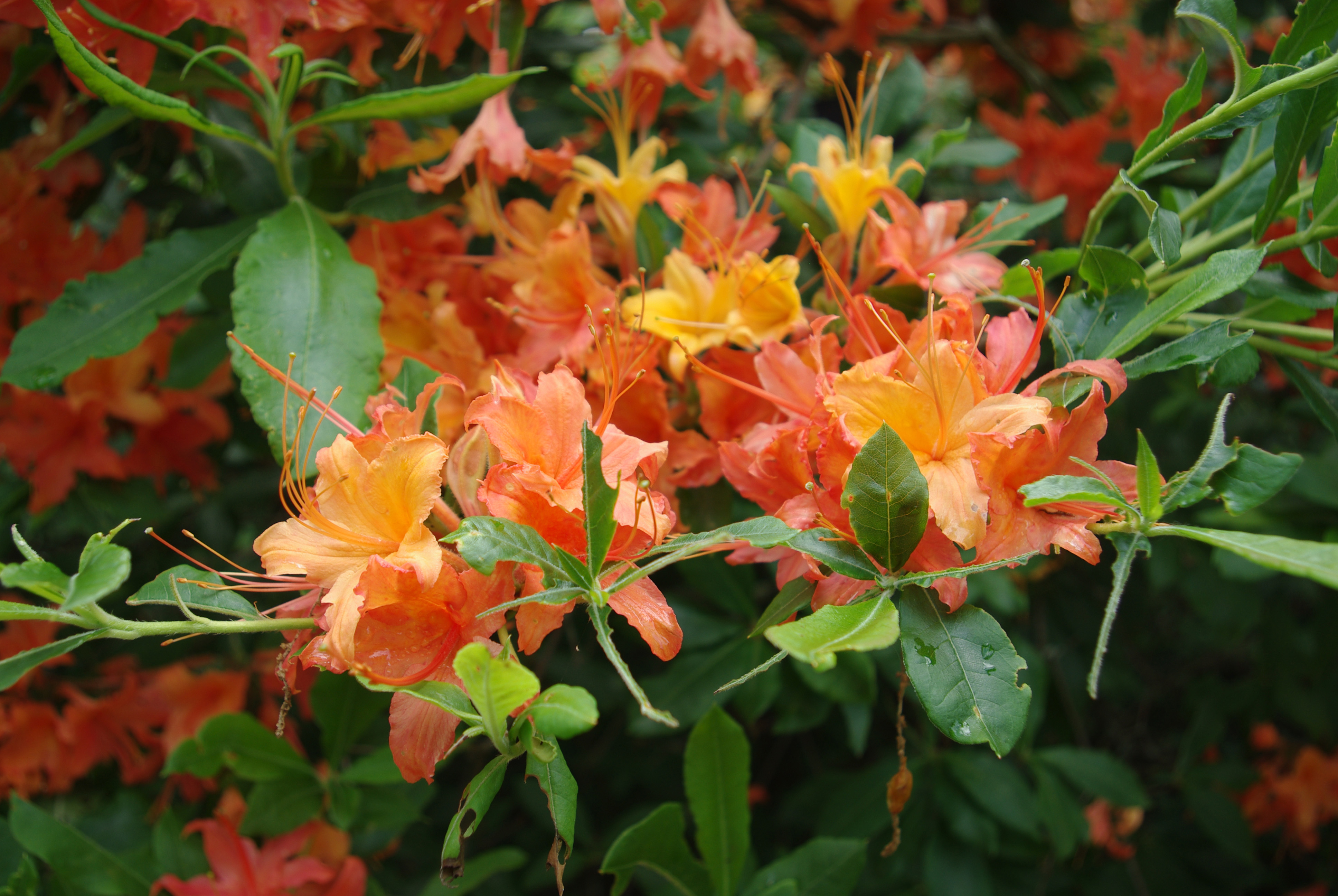 Rhododendron calendulaceum, Arnold Arboretum, Boston, Massachusetts